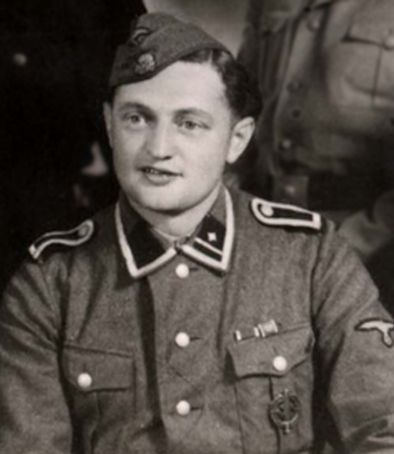 SS-Oberscharführer Karl Pötzinger (1908–1944), a Holocaust perpetrator who began his World War II career at the Brandenburg Euthanasia Centre and at the Bernburg Euthanasia Centre with the rank of Staff Sergeant. He was transferred to Treblinka extermination camp at the onset of Operation Reinhard of 1942. Pötzinger became Deputy Commandant of Treblinka II under SS-Scharführer Heinrich Matthes, supervising the gas chambers and later, serving as head of the cremation kommando in the Totenlager.